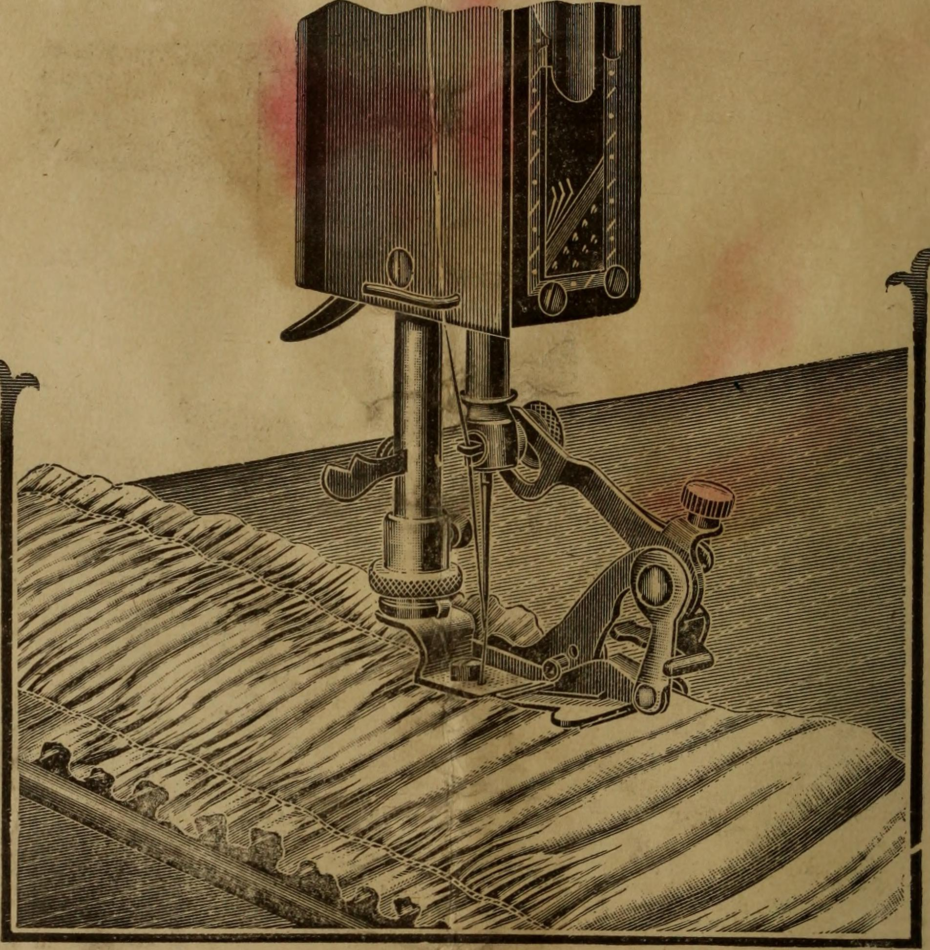 Title: Instructions for using the new improved Raymond family sewing machines and attachments Year: 1902 (1900s) Authors: Raymond Manufacturing Company of Guelph Subjects: Sewing Sewing machines Publisher: Guelph, Ont. : Raymond Manufacturing Company of Guelph Text Appearing Before Image: The Quilter. Take the thread cutter out of its position, by loosening theset screw which holds it ; insert the quilter in its place with theindicator or flat end to the right. Having obtained the distancerequired between the seams, fasten the quilter firmly with thesmall set screw, leaving the flat end of quilter high enough so thegoods will pass under freely. Keep the first row of stitchingstraight by a mark, or basting thread,—all succeeding rows aremade straight and at a uniform distance by keeping the row lastmade steadily under the guide. 18 INSTRUCTIONS FOR USING Text Appearing After Image: The Ruffler Ruffling. Remove the presser foot and attach the ruffler in its place,connecting the lever of the ruffler with the needle clamp of themachine. Place the goods to be ruffled between the blades of theruffler, push forward the goods until under the needle, lower thepresser bar and proceed. To Regulate the Ruffler.—The ruffler is regulated b) thethumb screw on the end of the lever. If full gathers are required,turn the adjusting screw to the left, or to the right for finegathers; for the latter it is always better to have a short stitch.Oil the wearing points of the rui&r before using. Ruffling- Between Bands, (as for making aprons).—Place the lower band under the ruffler, having the right side of thegoods up, place the apron into the ruffler gauge, then place thetop band over or on top of the ruffler gauge, and under the rufflerfoot. This operation will blind stitch the band on each side ofthe apron. THE NEW IMPROVED RAYMOND 19